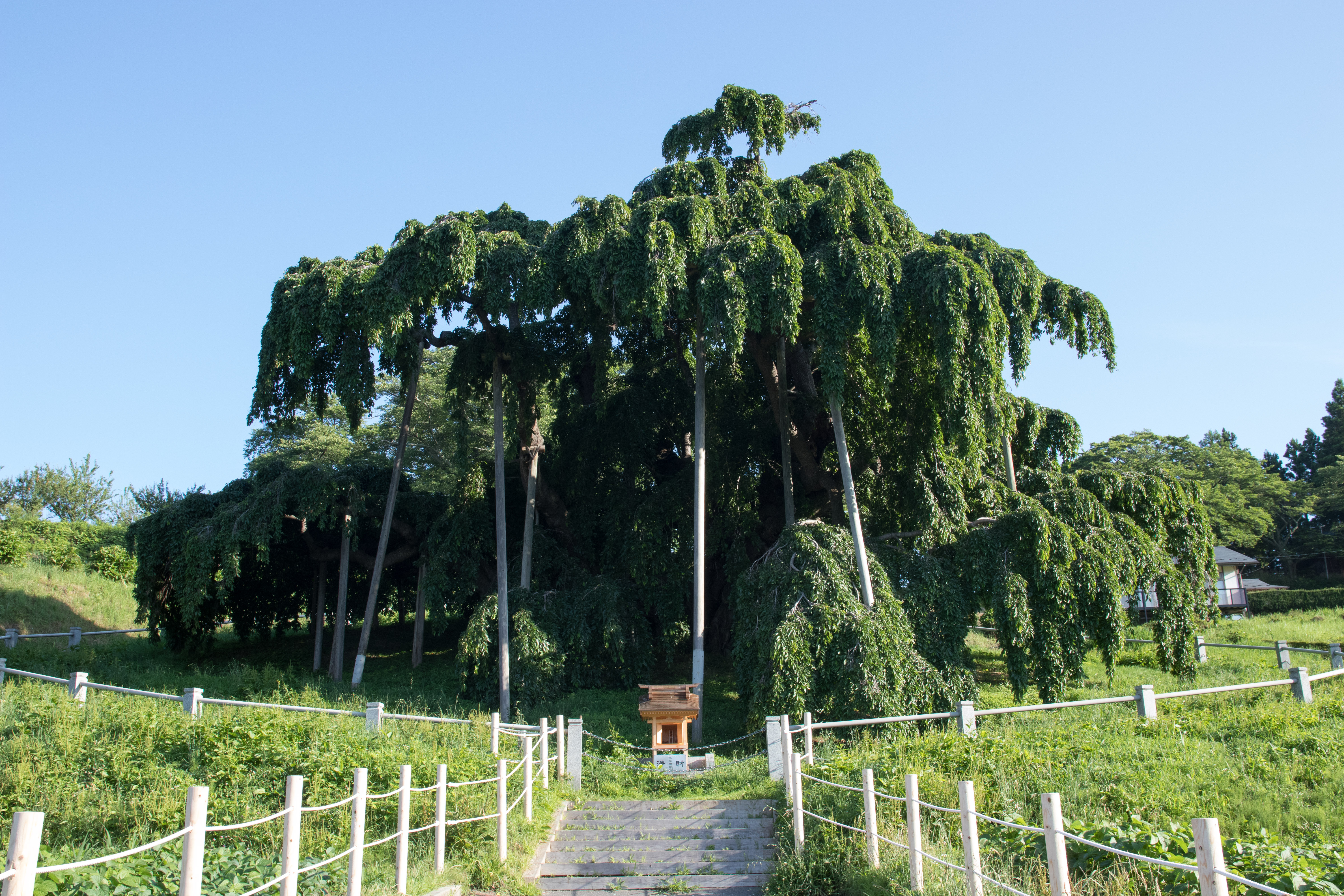 Miharu Takizakura, Miharu Town, Fukushima Pref., Japan.